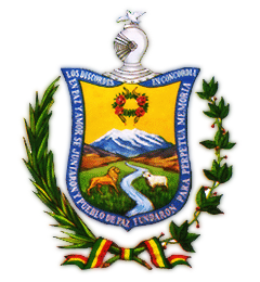 Graphically improved coat of arms of La Paz City and Department of La Paz, Bolivia.